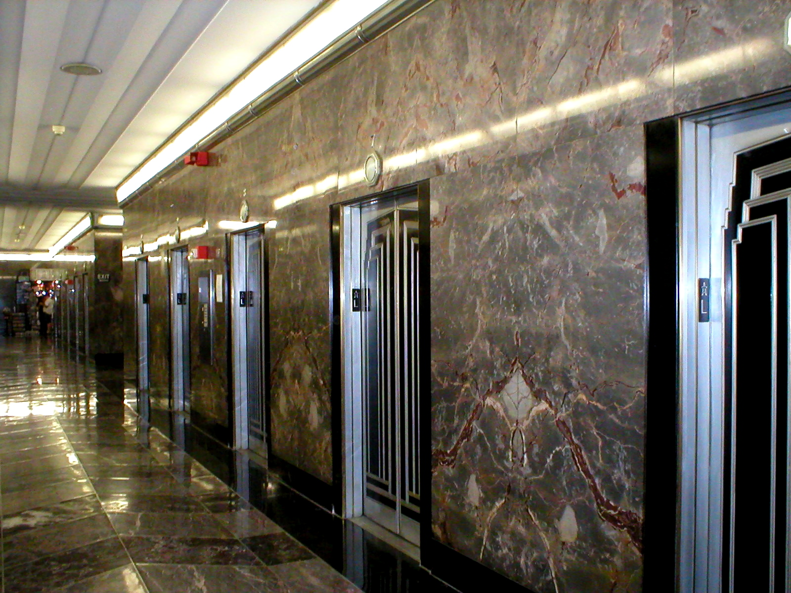 Art deco styled elevators in the lobby of the Empire State Building.